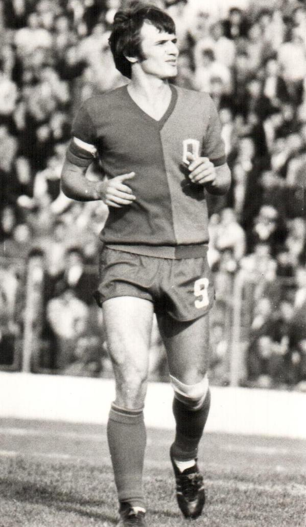 Attila Kun in the 70's